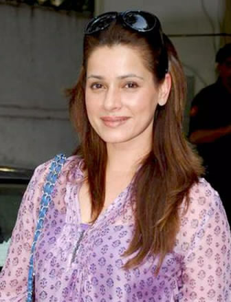 Neelam Kothari at Ravissant store